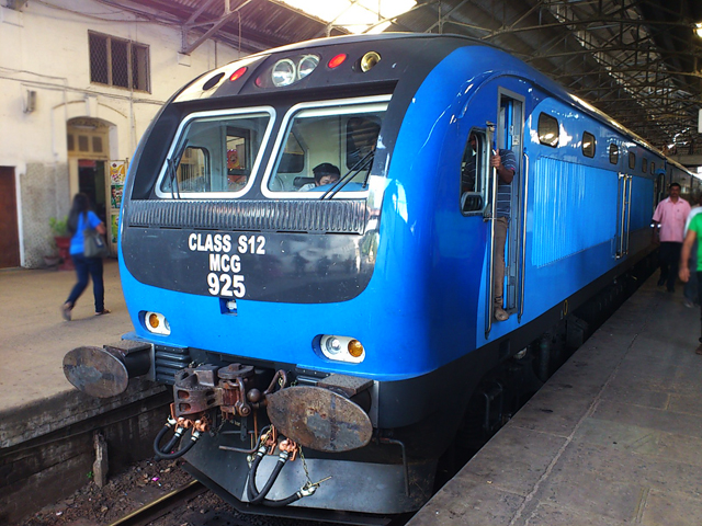 s12 DMU